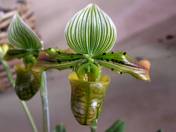 Paphiopedilum